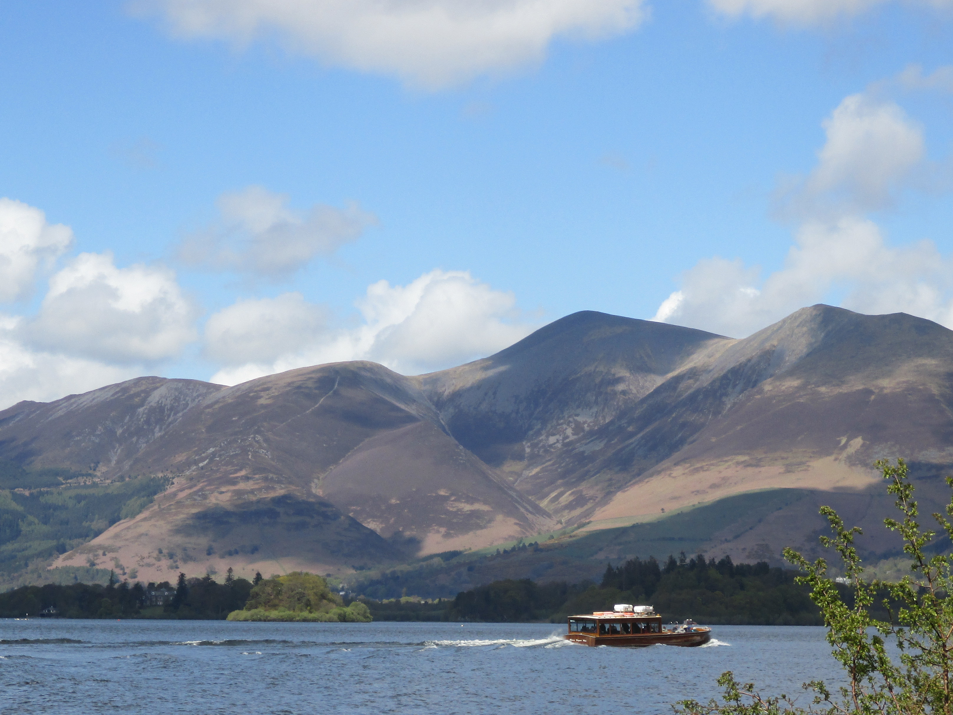 Skiddaw photographed from Ashness. In the middle distance is one of the Keswick Launch Company's ferries.